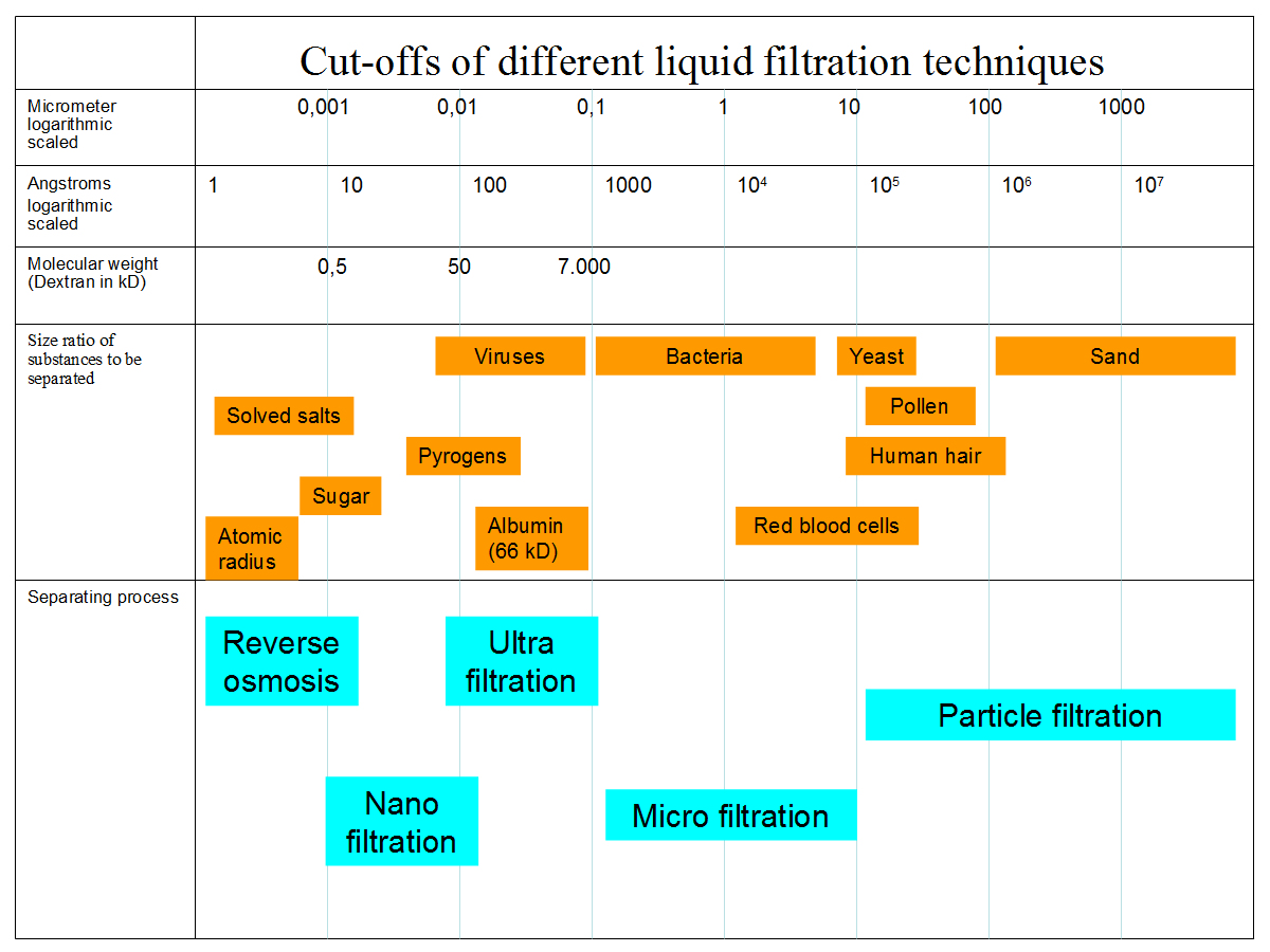 Cut-offs of different liquid filtration techniques